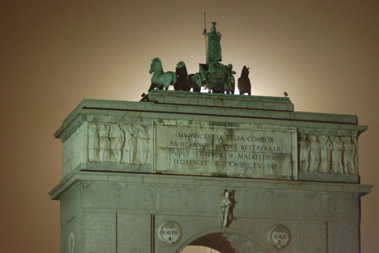 Partial view of Arco de la Victoria in Madrid (Spain).